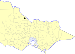 Location of the Borough of Kerang within Victoria.